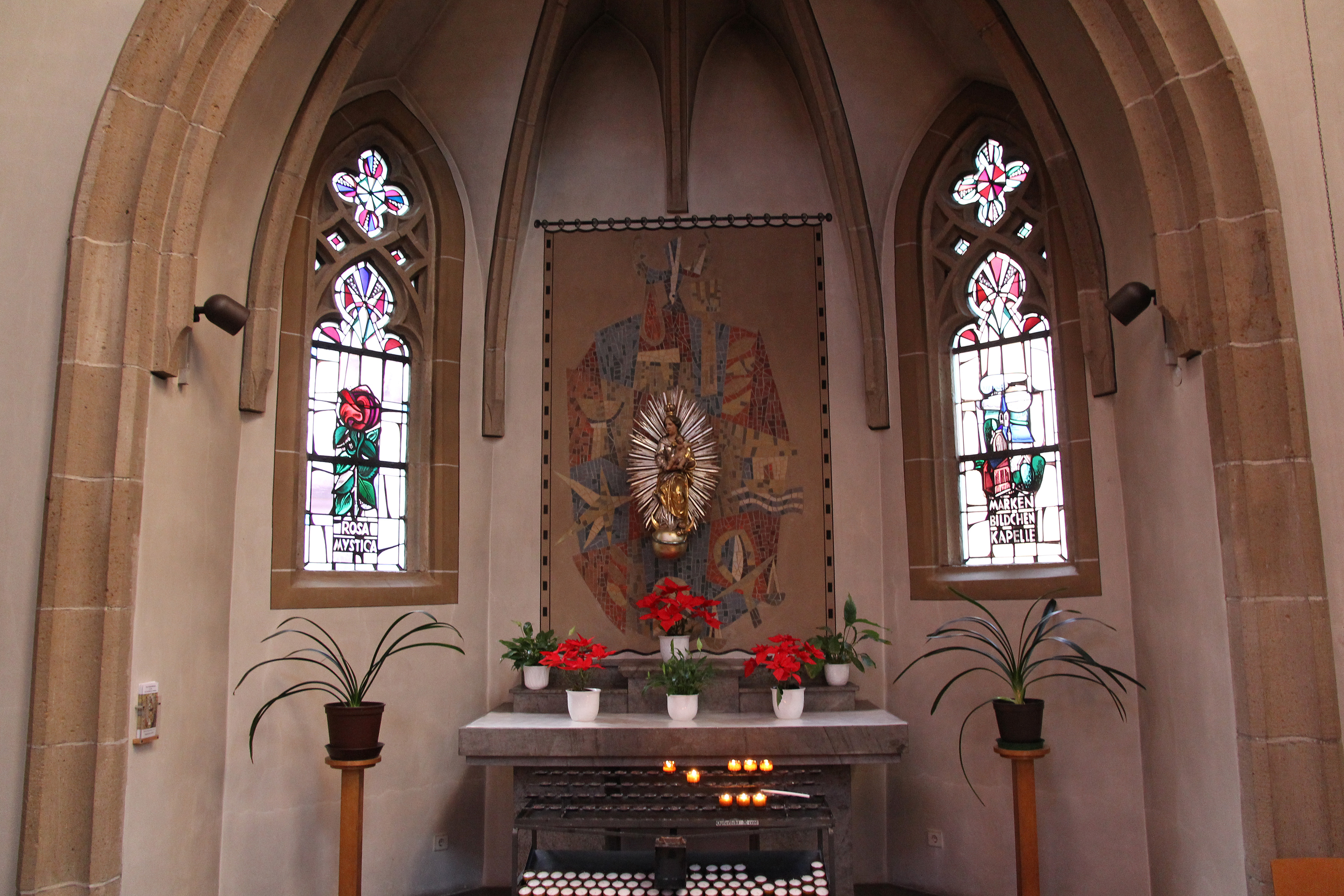 St. Josef church in Koblenz